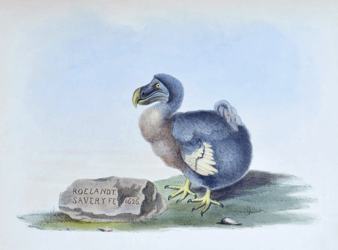 Facsimile of Roland Savery's figure of the Dodo in his 1626 picture of the Fall of Adam, used as frontpiece of The dodo and its kindred by Strickland.